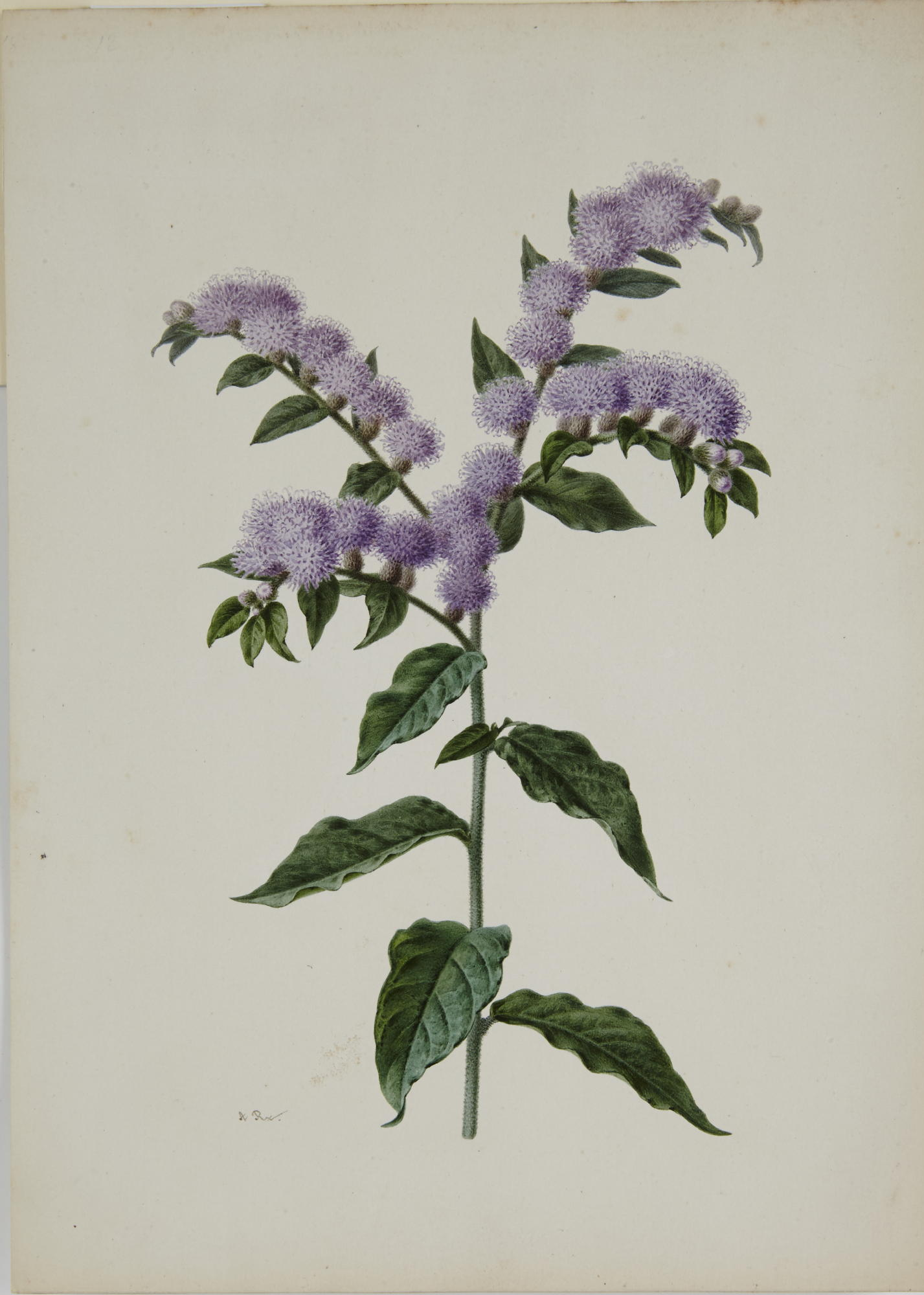 Cyrtocymura scorpioides (Lam.) H.Rob. (as Vernonia centriflora Link & Otto) Revue Horticole, Journal d’Horticulture Pratique, Paris, 1874